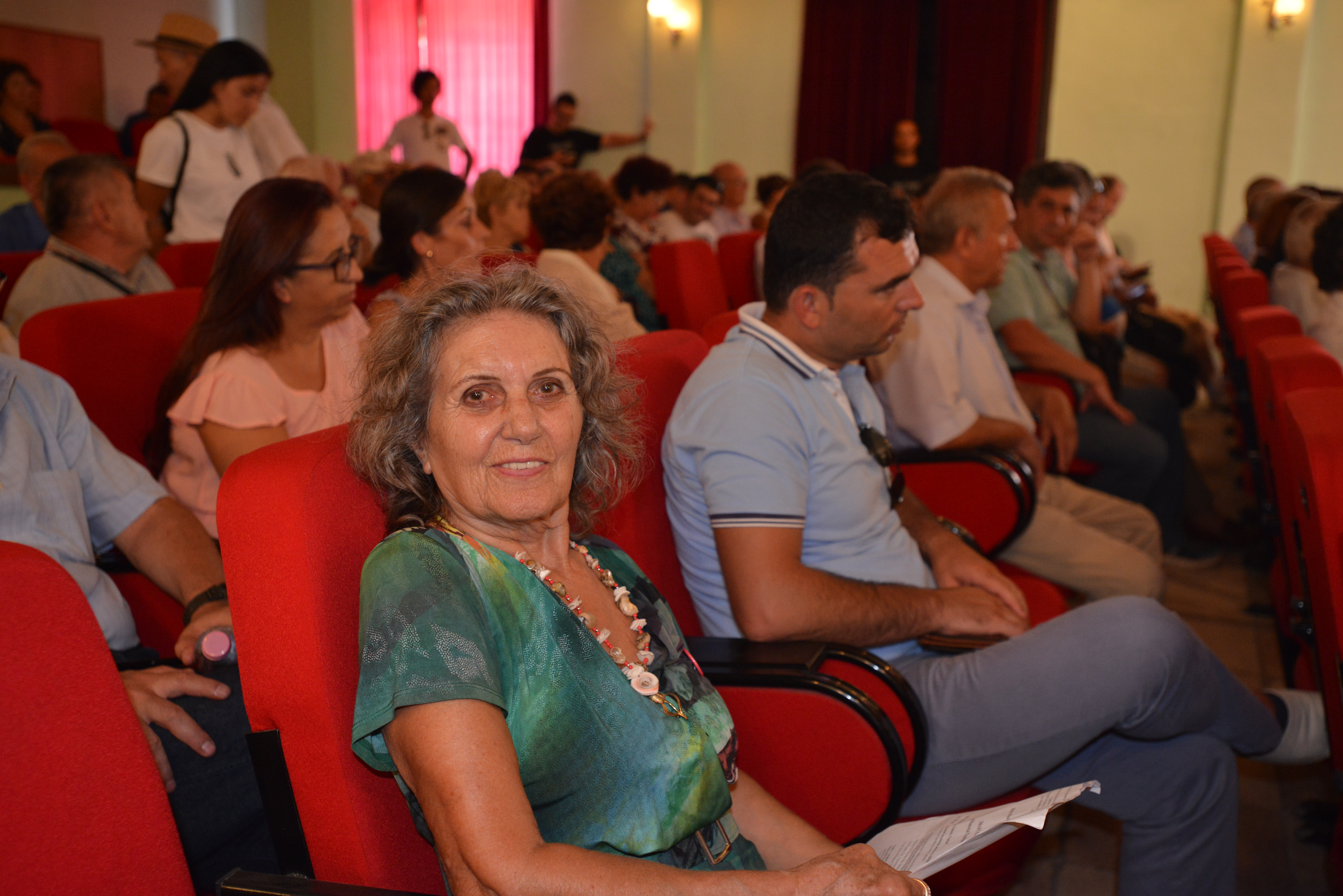 Fatbardha Saraçi gjatë Ditës Përkujtimore të Viktimave të Sistemeve totalitare, 2018